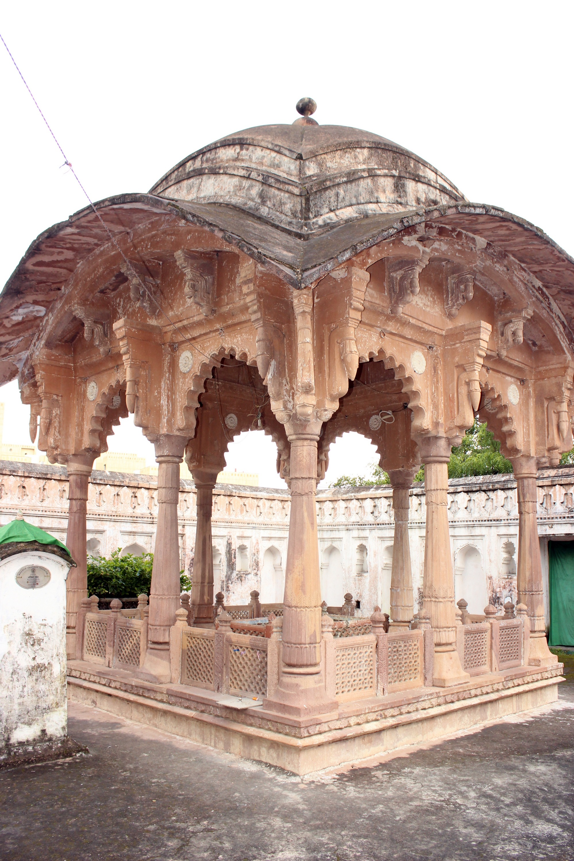 Golghar